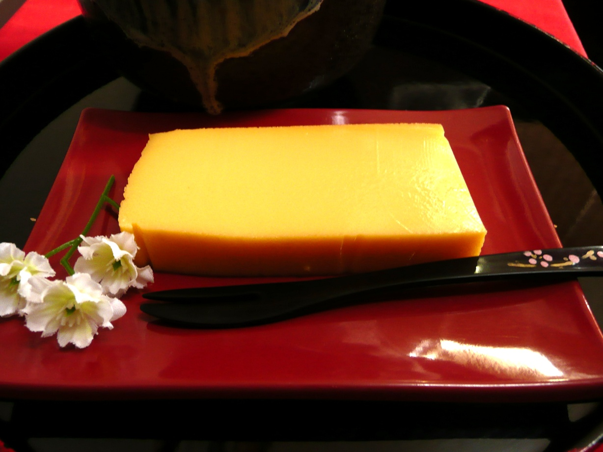 "Atsuyaki Tamago" in Obi, Nichinan City, Miyazaki Prefecture, Japan. It likes Sweets.